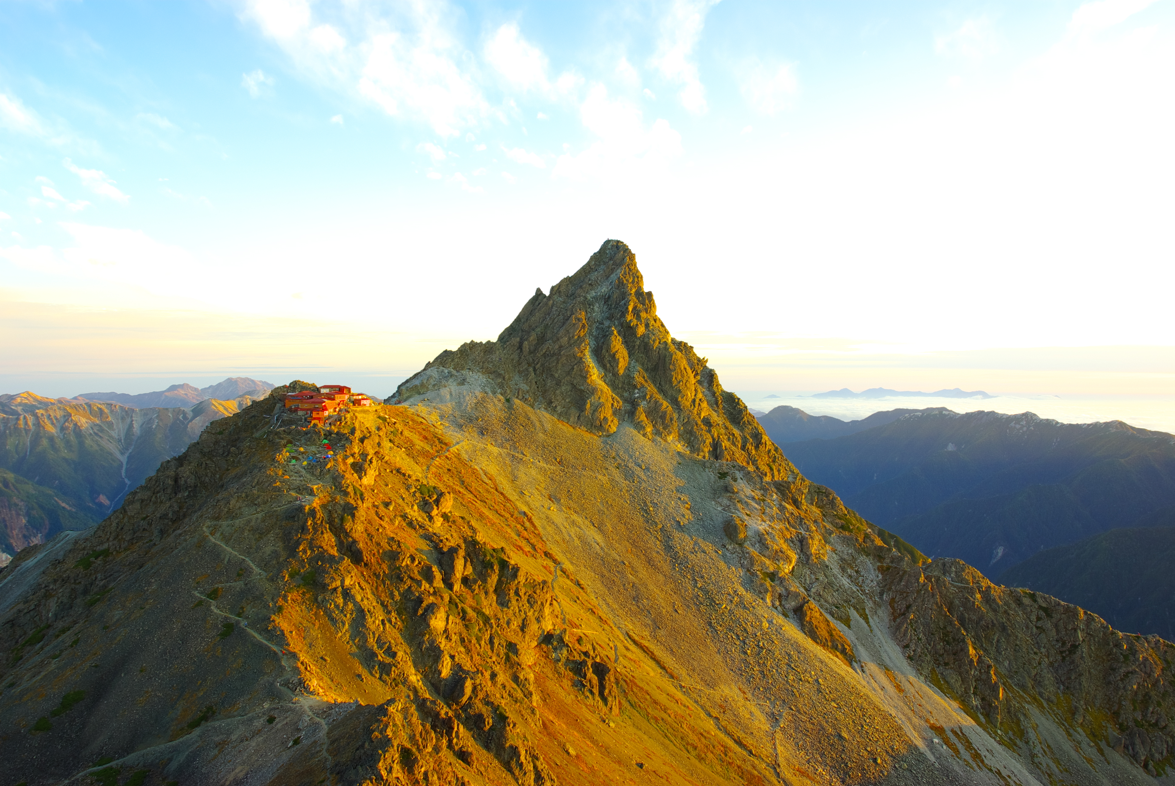 The dawn in Yarigatake.